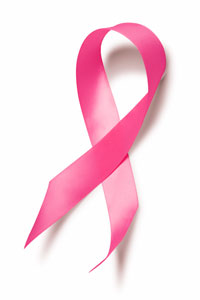 Photo of Pink ribbon